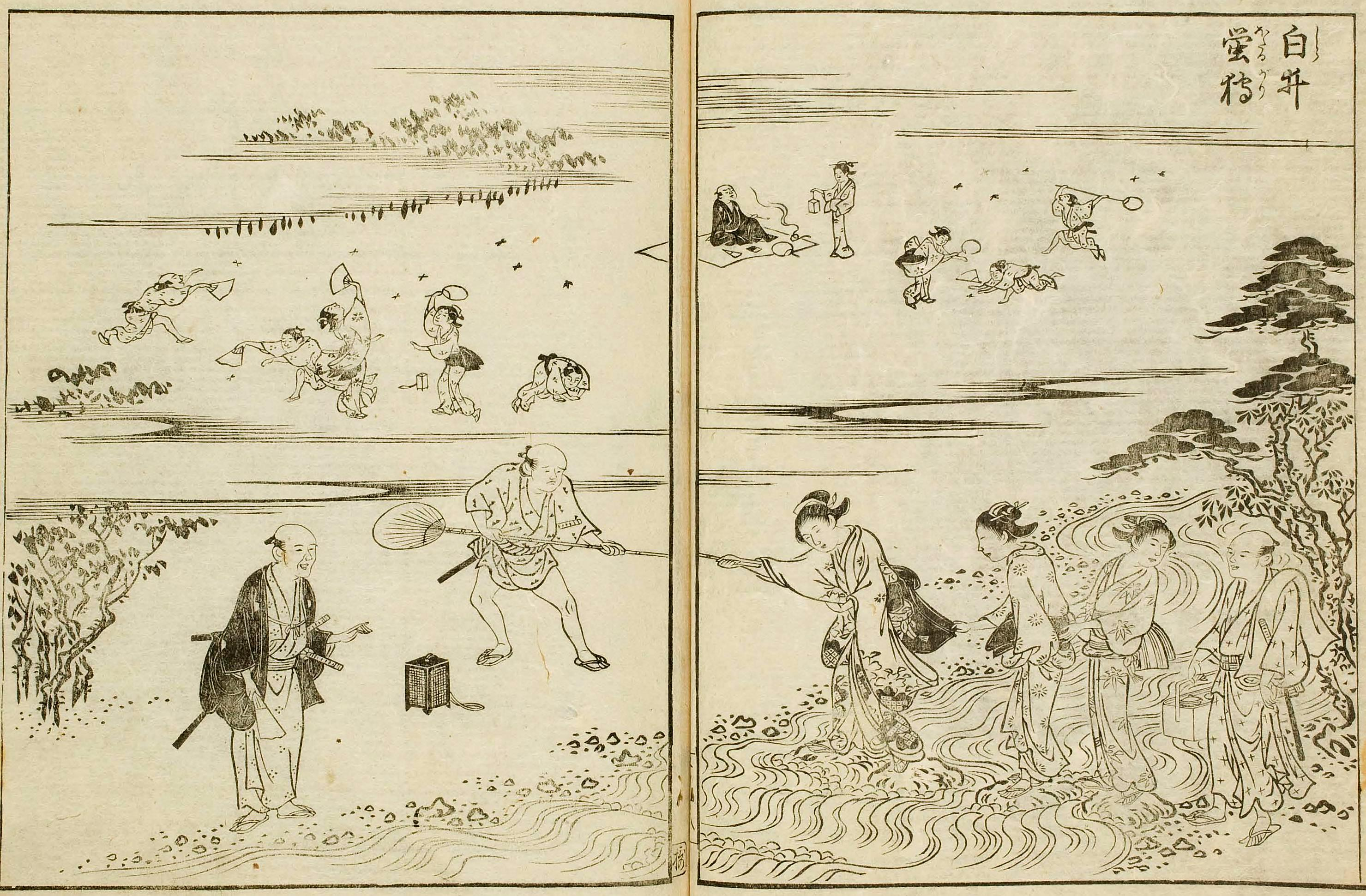 Firefly Viewing in the 18th century Japan. It used to be a Japanese summer evening tradition. People with fans enjoyed flying firefly's lights in the dark. Some people caught a few for enjoying at home.